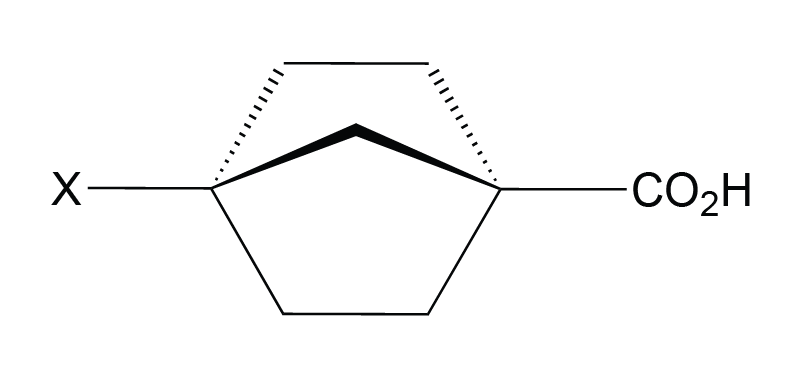 4-substituted bicycloheptane acid